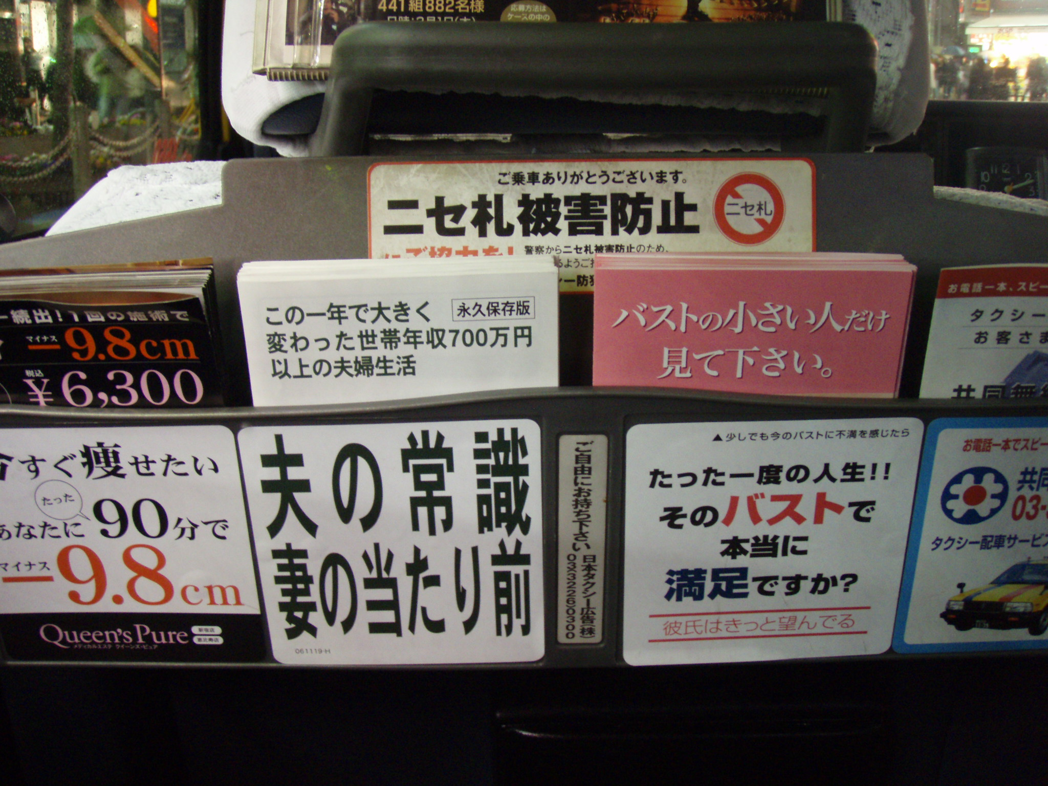 AD pamphlets in a taxi of Japan.